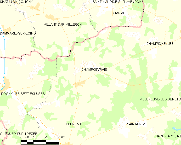 Map of French municipality Champcevrais